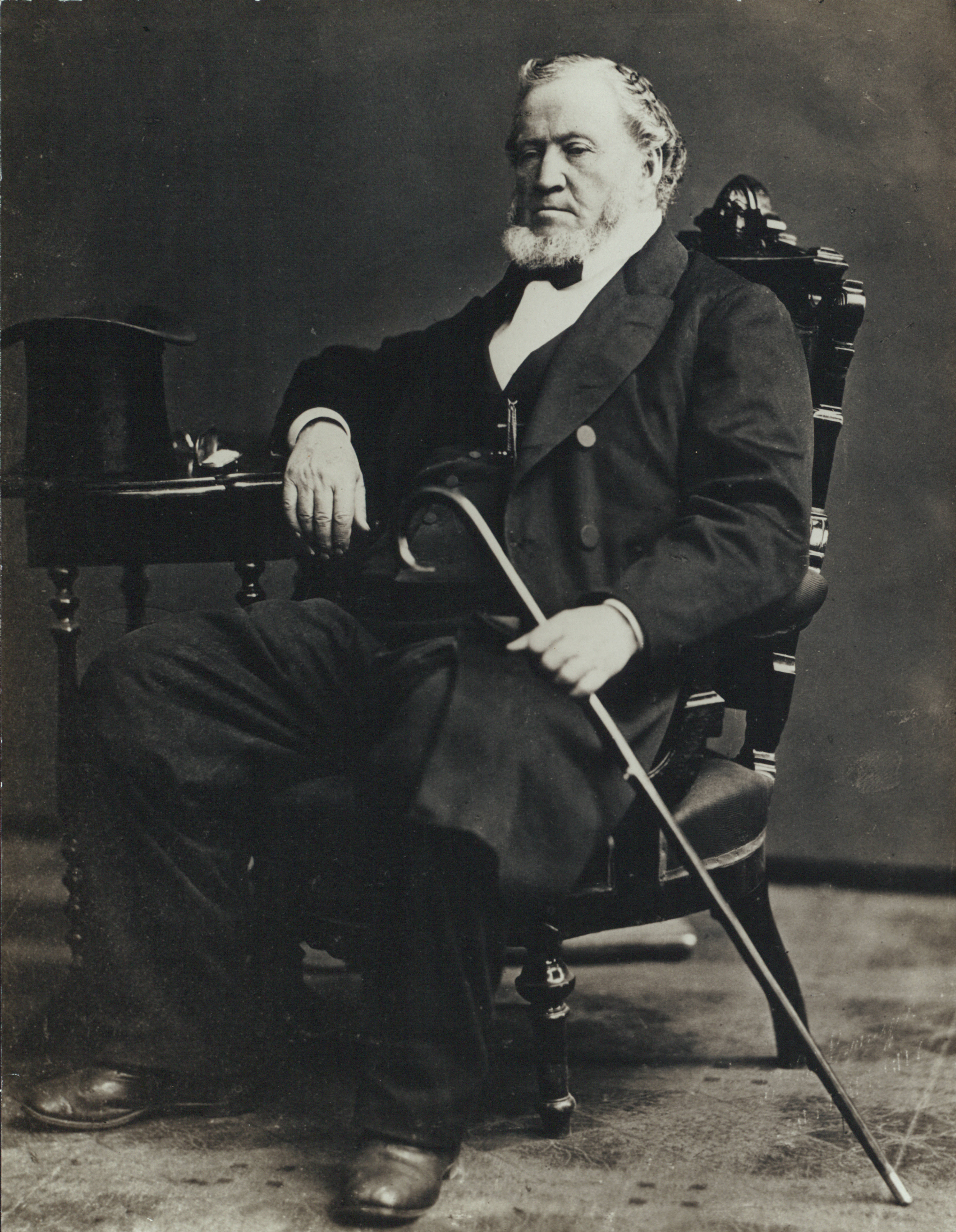 Brigham Young